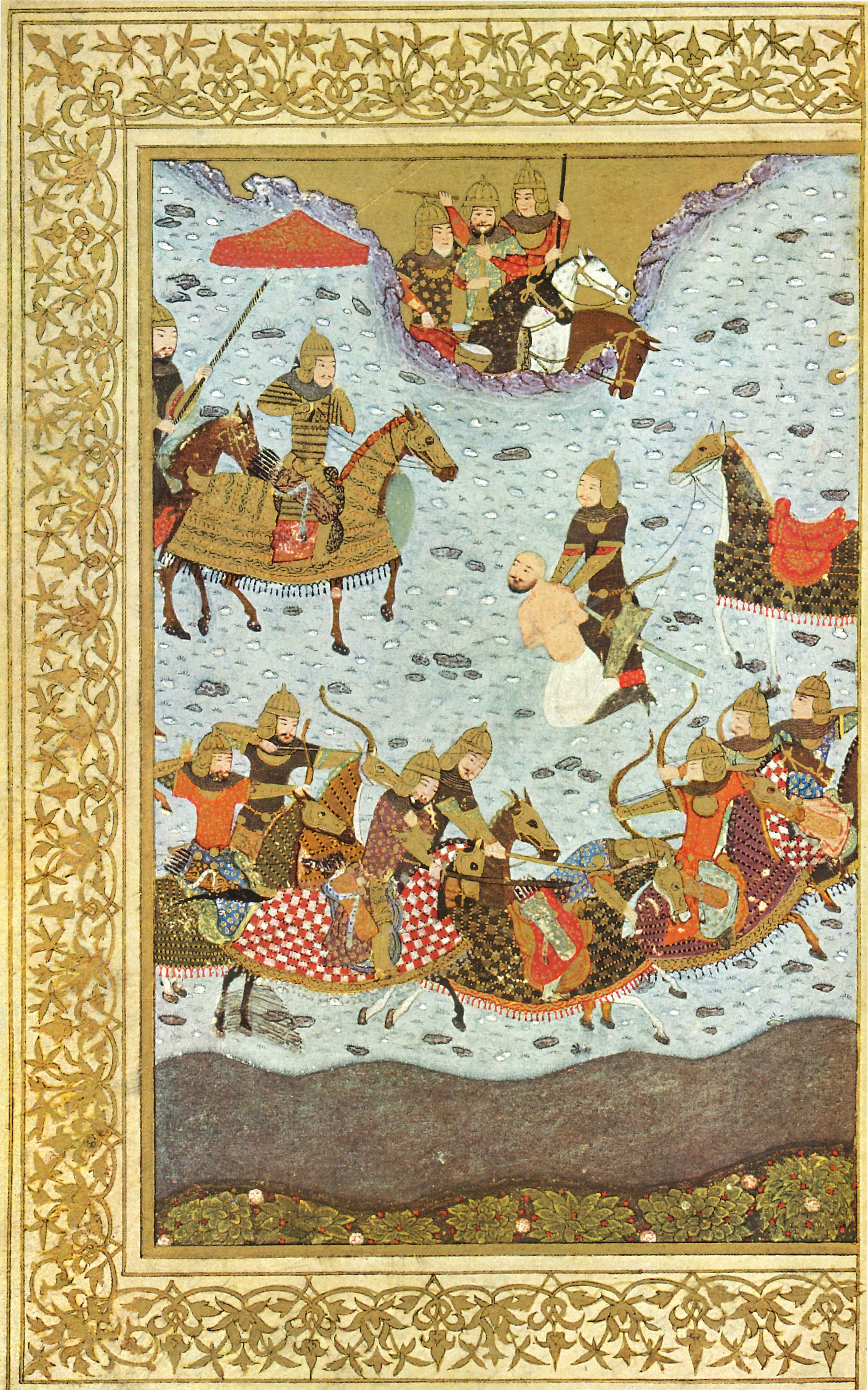 A page of Iskander Anthology shows Iskander imprisons Darab. Painted in shiraz around 1410 AD. Gulbenkian Foundation, Lisbon.